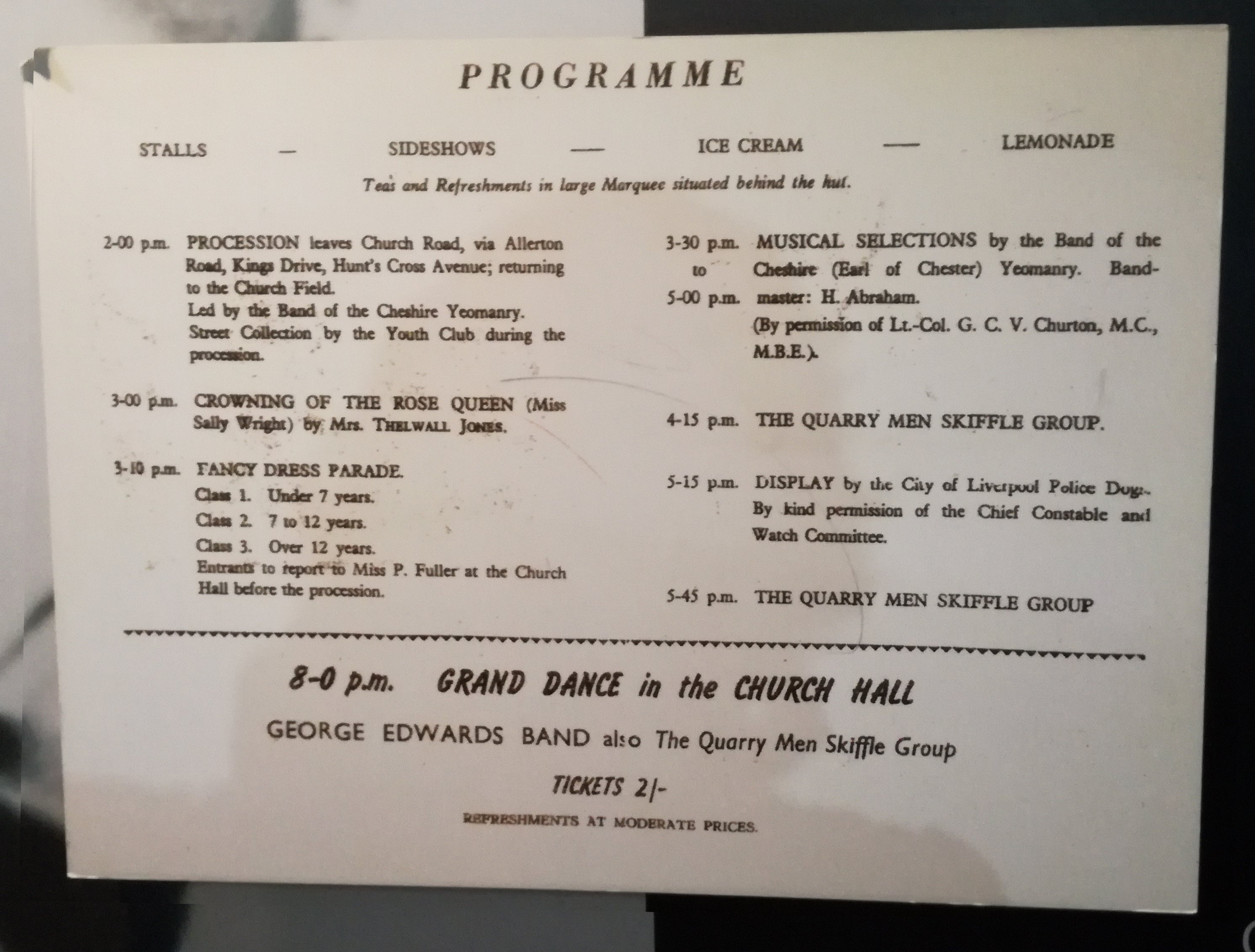 Program of St. Peters Church (Wolton) Fete on 6th July 1957, performing The Quarry Men.